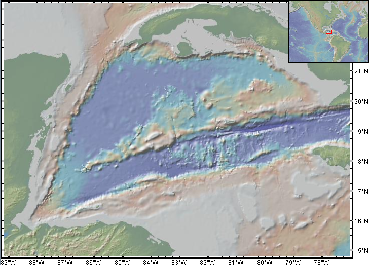 Bathymetry profile of the Mid-Cayman trough and spreading center, south of Cuba and the Grand Cayman island. Collected using GeoMapApp.